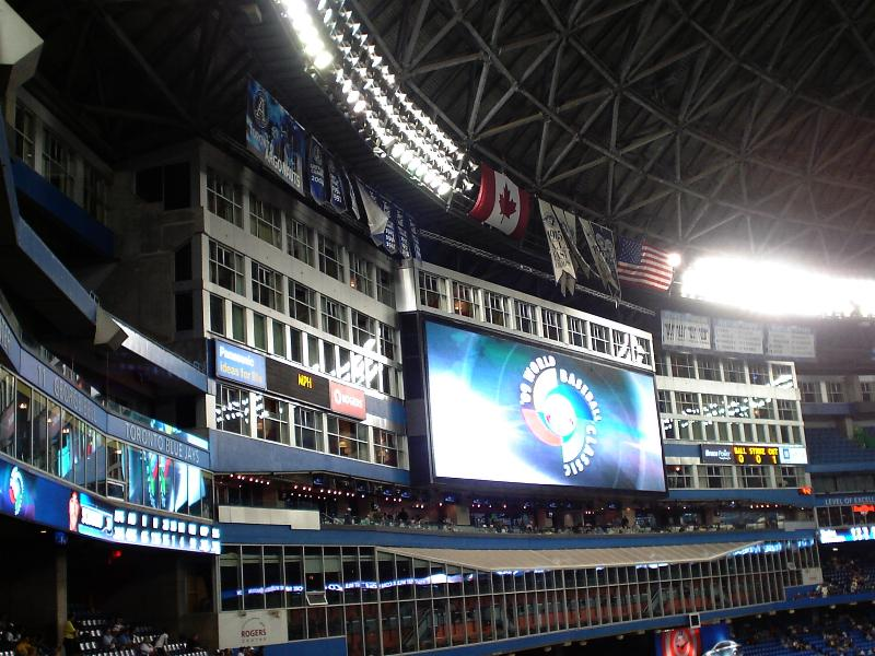 In stadium ad for the 2009 WBC shown at the Rogers Centre.